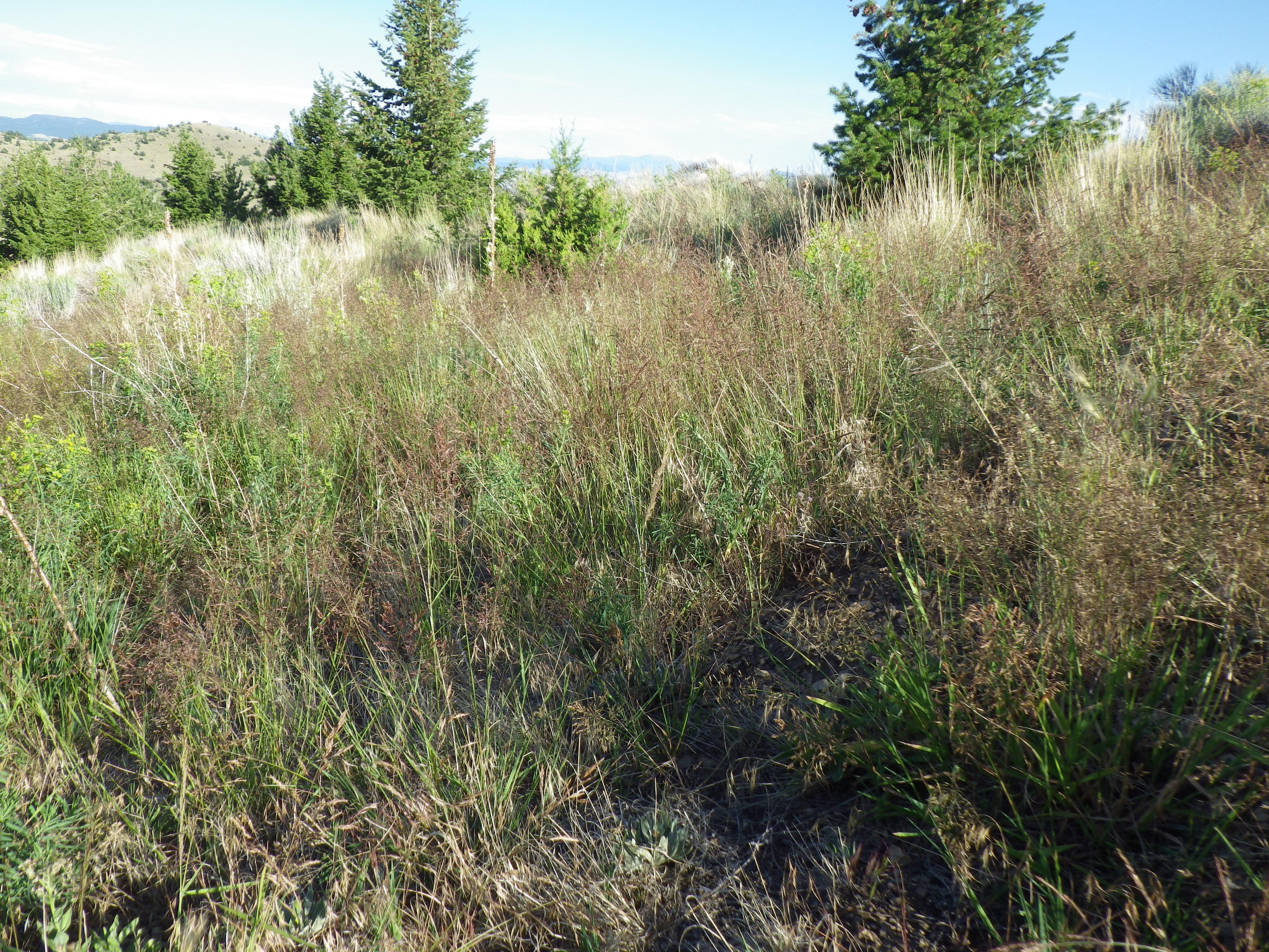 This introduced grass was growing with a bunched habit in an area that may have been vegetatively restored and there mainly at the bottom of shale barrens where perhaps water runoff was collected. The spikelets have well developed paleas and are borne generally along the length of the inflorescence branch. The ligules are about 4-5 mm long, generally longer than wide.